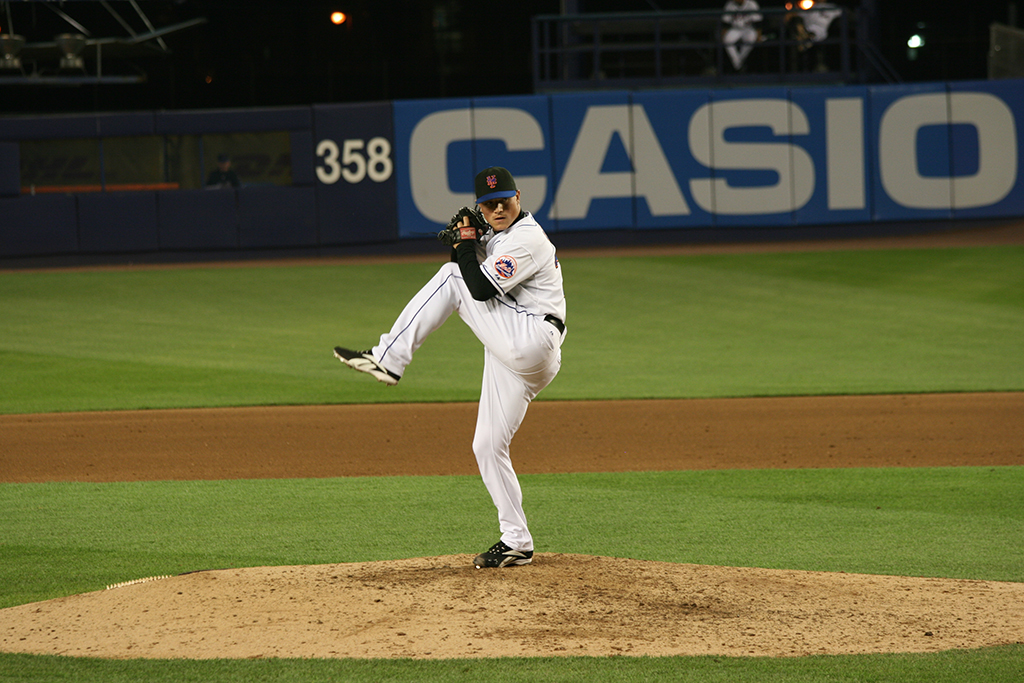 Joe Smith